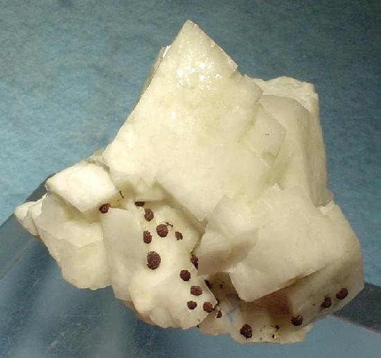 Calcite (Var.: Plumboan Calcite) Locality: Tsumeb Mine (Tsumcorp Mine), Tsumeb, Otjikoto (Oshikoto) Region, Namibia (Locality at ) Size: 6.0 x 4.6 x 3.9 cm. A superb, complete all-around and pristine cluster of blocky, lustrous, porcelaneous, lead-rich calcite rhombs from the Tsumeb Mine. The large, dominating rhomb is 3.4 cm, in the long dimension. This specimen is further highlighted by a very aesthetic scattering, at the base, of brown, botryoidal coronadite or some other oxide. Ex. Rob Smith Collection.